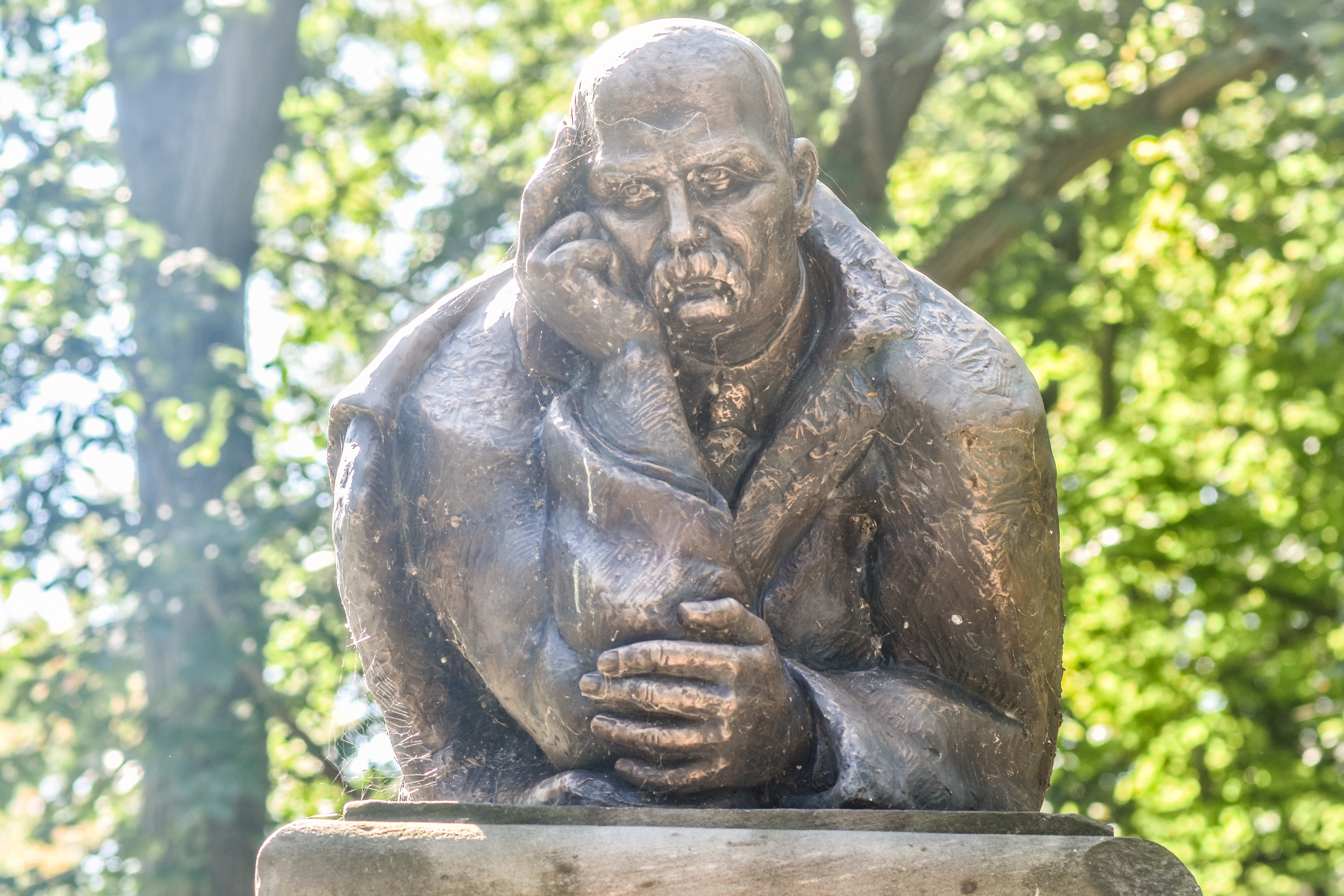 Taras G. Shevchenko Cultural Gardens of Cleveland